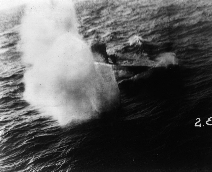 U-159 attacked by a PBM-3C of VP-32, July 28, 1943 4 Mk-44 depth charges spash across U-159